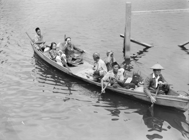 BRUNEI, NORTH BORNEO. NATIVE PRAU (BOAT) BEARING, THE SULTAN OF BRUNEI, HIS WIFE AND PARTY, MOVING TOWARDS THE WHARF AFTER THEIR JOURNEY FROM THE VILLAGE OF TENTAYER, WHENCE THEY FLED DURING THE BOMBING OF BRUNEI.